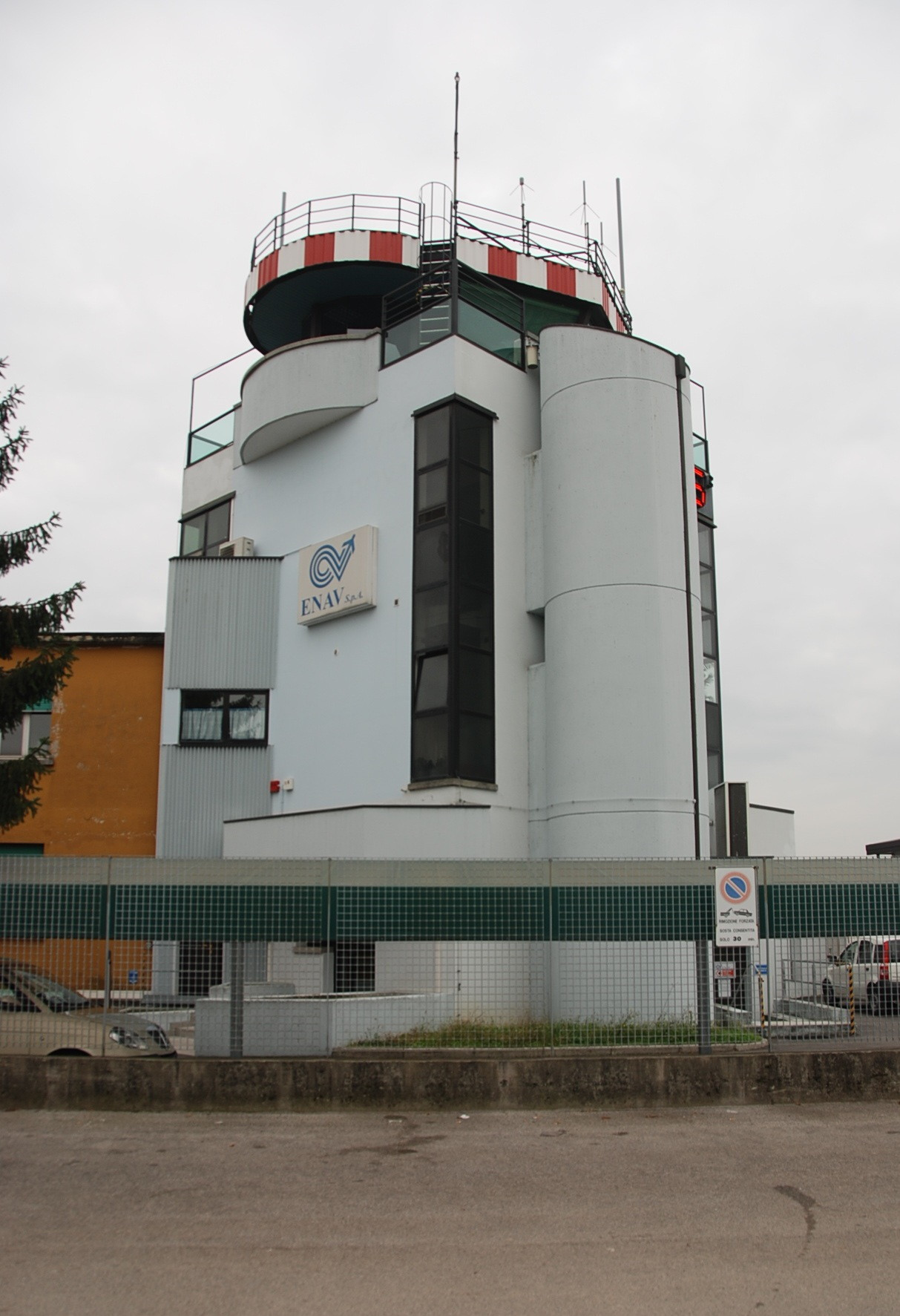 Padua aerodrome control tower